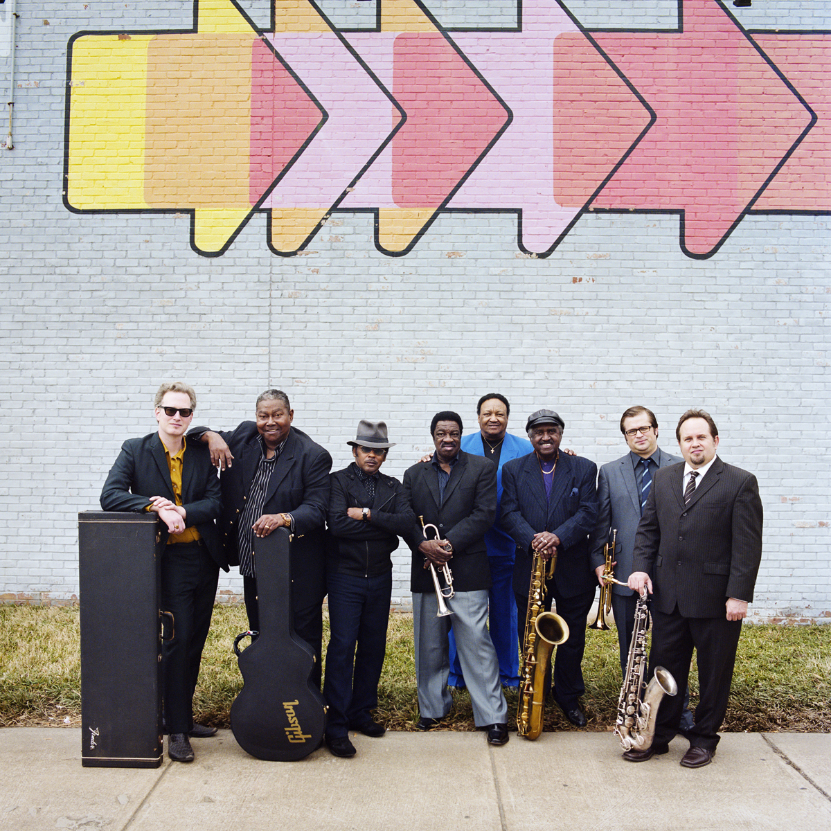 The Bo-Keys outside Stax Records in Memphis, TN